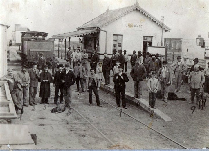 Train station 1895